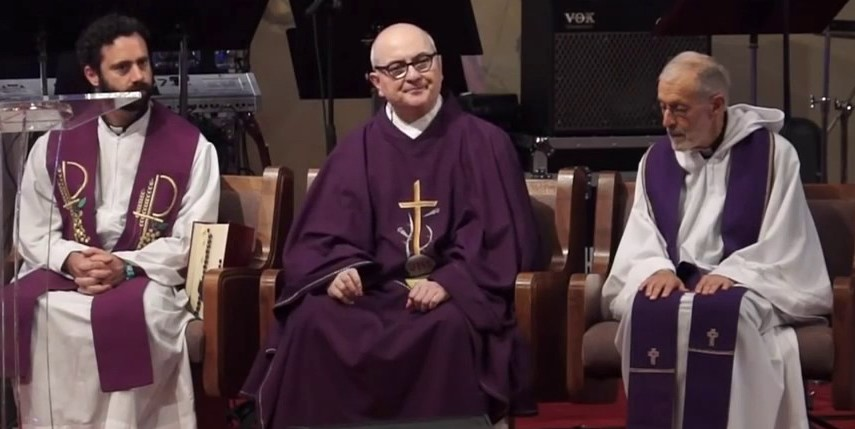 En Estados Unidos, año 2017. Padre Fortea.